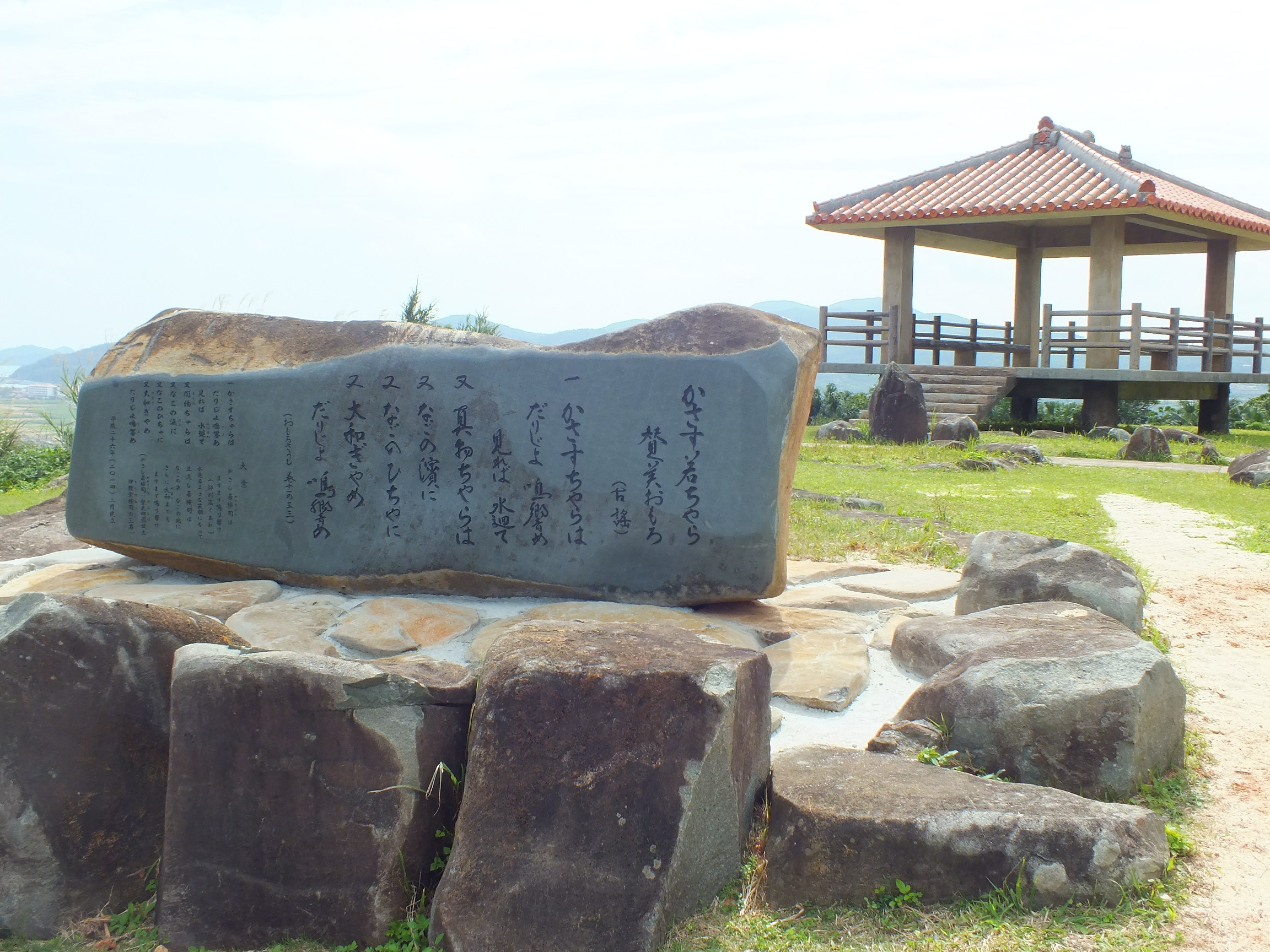 Tonnaha-jō, Kumejima Town, Okinawa, Okinawa Prefecture, Japan.